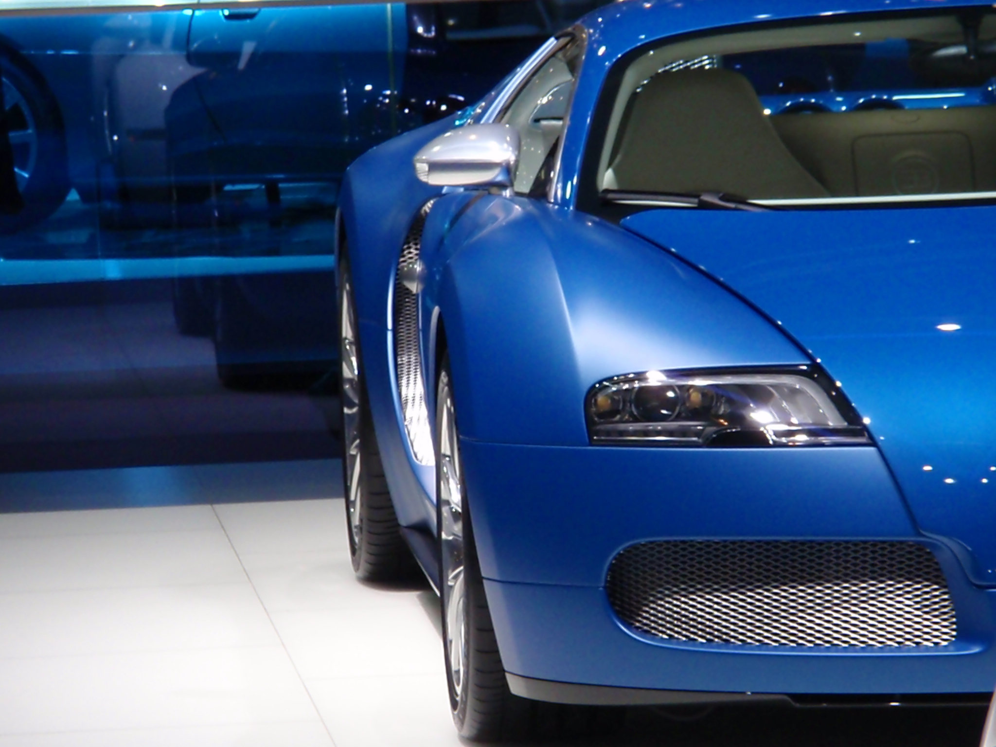 Bugatti Veyron Bleu